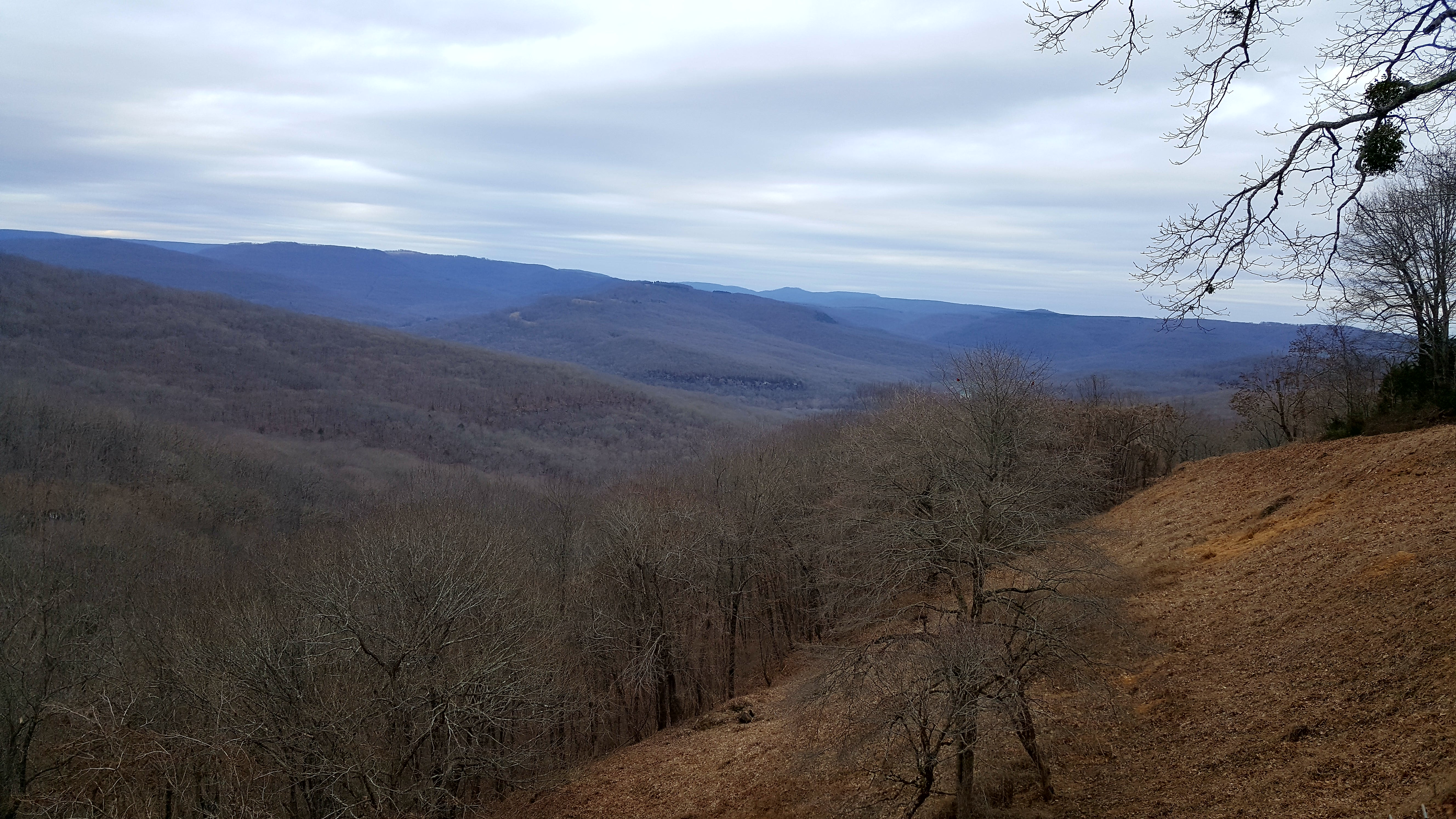 Artist Point Arkansas Photo Taken Next to Gift Shop